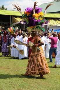 The Ofala festival is one of the more famous events in Onitsha culture held every October.